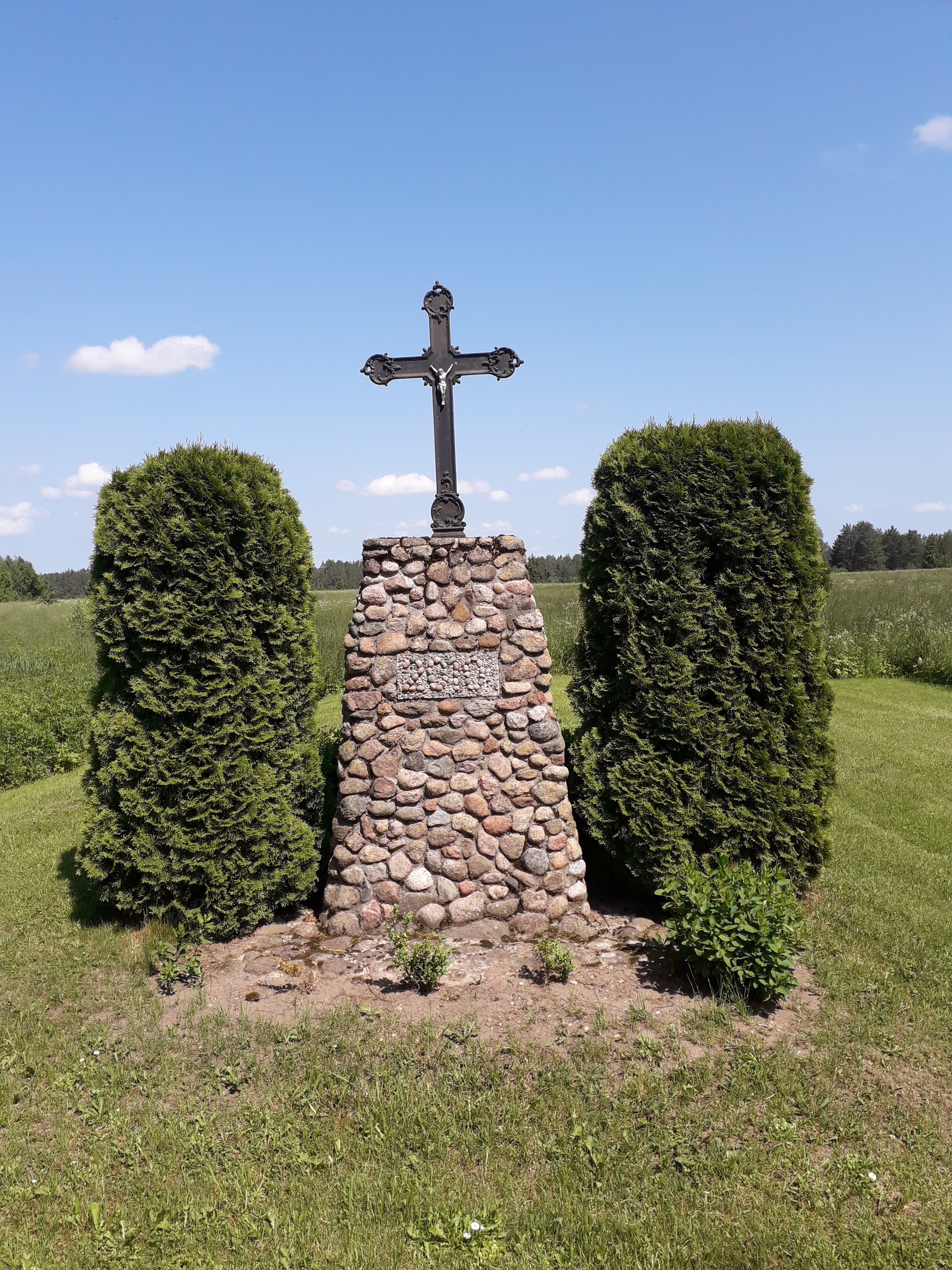 The crucifix in Skverbai, Kupiškis District, Lithuania